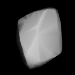 3D convex shape model of 1237 Geneviève, computed using light curve inversion techniques. J. Hanuš, J. Ďurech, M. Brož, B. D. Warner (June 2011). "A study of asteroid pole-latitude distribution based on an extended set of shape models derived by the lightcurve inversion method". Astronomy and Astrophysics 530: A134. ISSN 0004-6361. arXiv